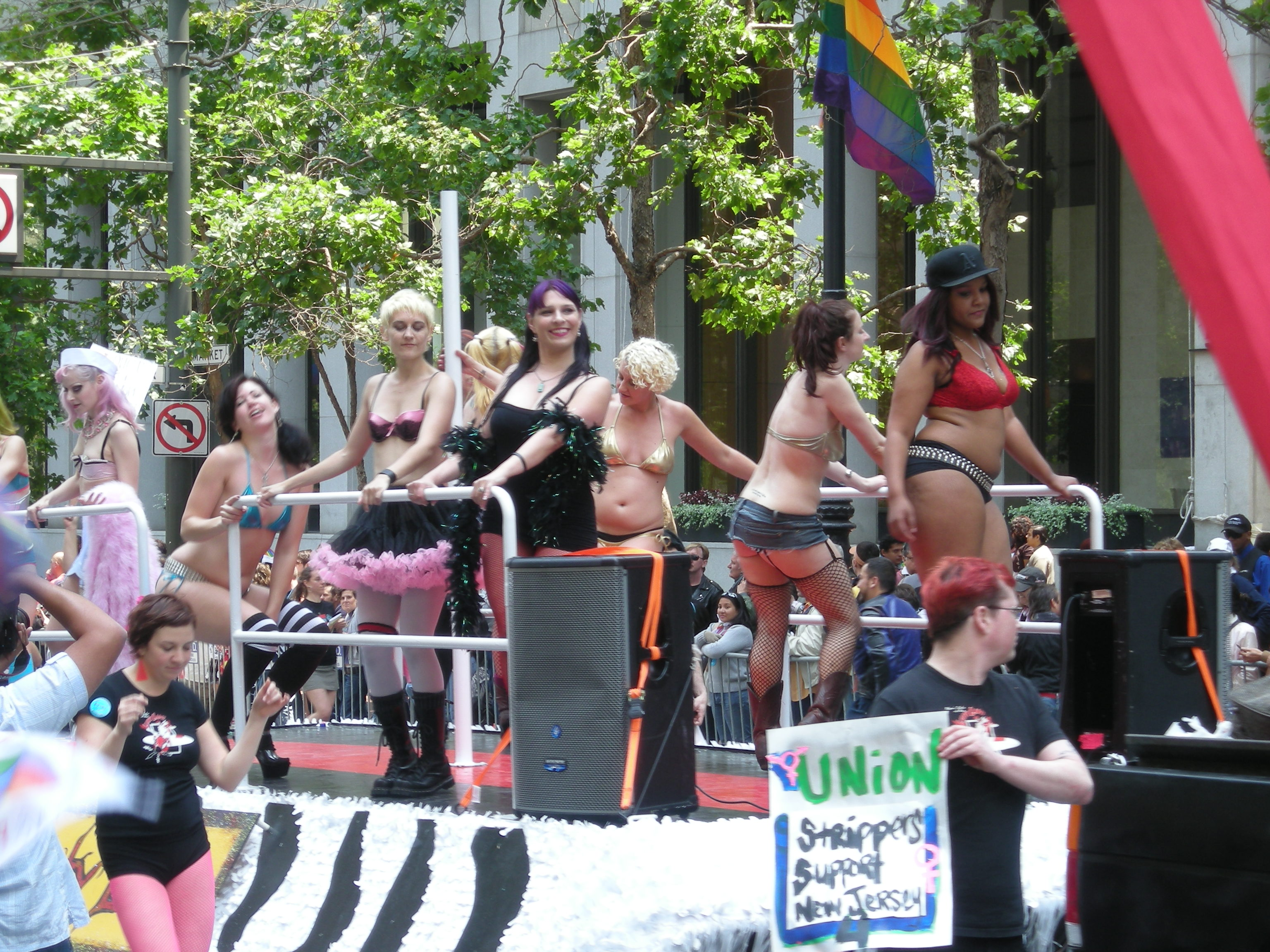 Dancers from the Lusty Lady in San Francisco, the only unionized strip club in the United States, participating at the 2008 Pride Parade on Market Street in San Francisco.